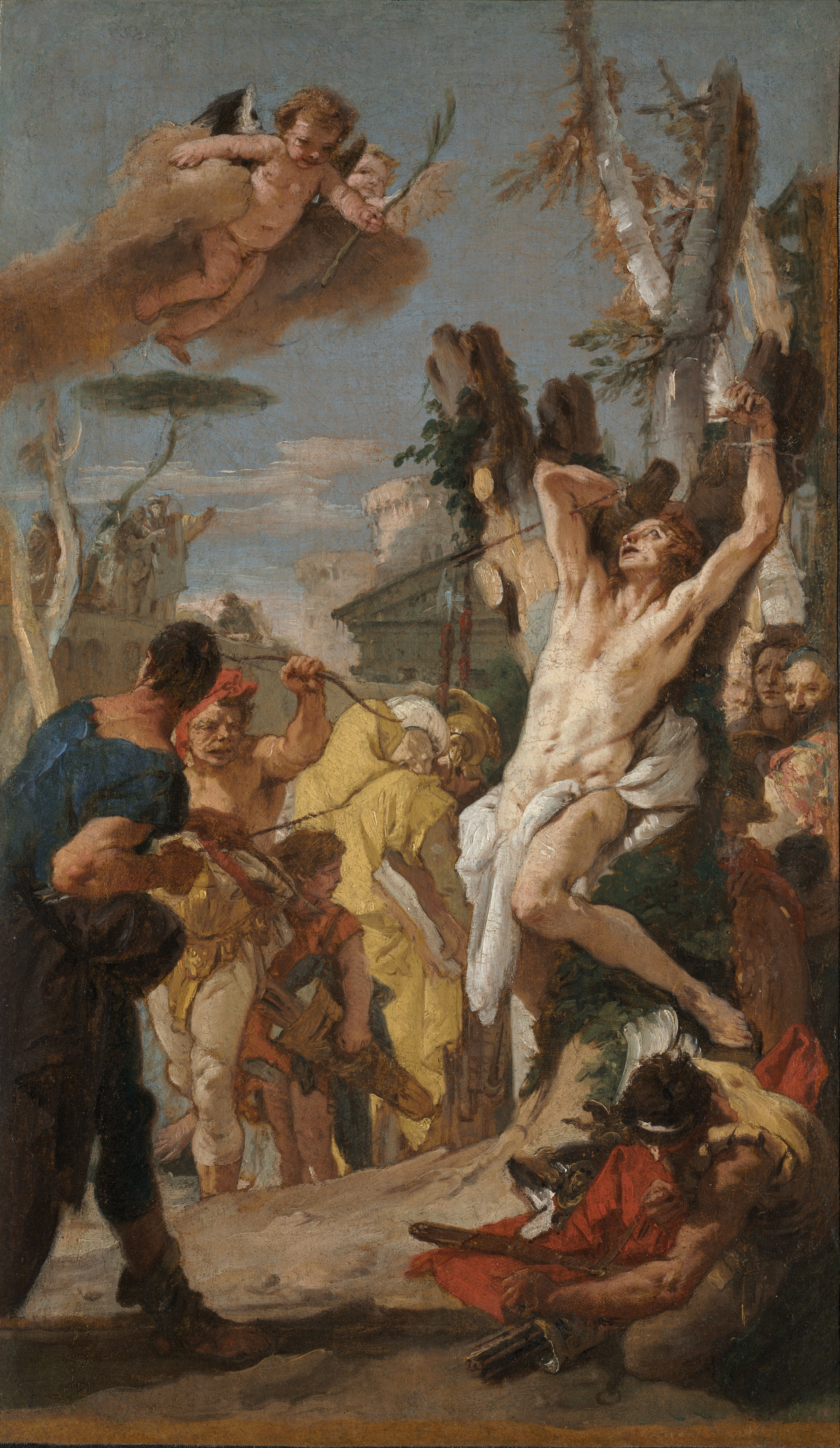 In 1739 a pair of monumental altarpieces by two Venetian painters (Giovanni Battista Tiepolo and Giambattista Pittoni) were installed in a church in southern Germany, part of a carefully orchestrated decorative program that included architecture, painting, sculpture, and decorative stuccowork. This sketch is Tiepolo’s initial design for his altarpiece, submitted for approval before beginning the final work. With quick, assured brushstrokes, he represents the Christian martyr Sebastian bound to a tree and shot with arrows, flooded with radiant light to symbolize his devotion to his faith.